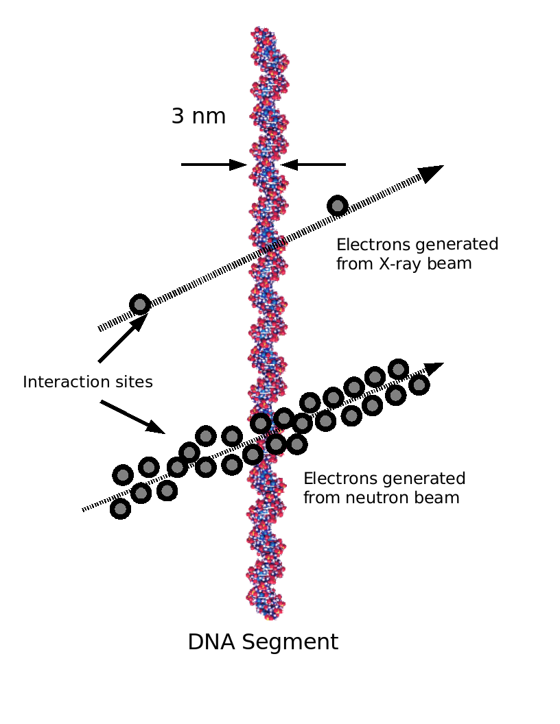 DNA Image, in png format Inspired by Figure XVIII-1 of Johns HE The Physics of Radiology, Charles C Thomas 3rd edition (1978). Page 676. Also See Hall, E. Radiobiology for the Radiologist 5th edition (2000) for similar drawings. Created using Open office.